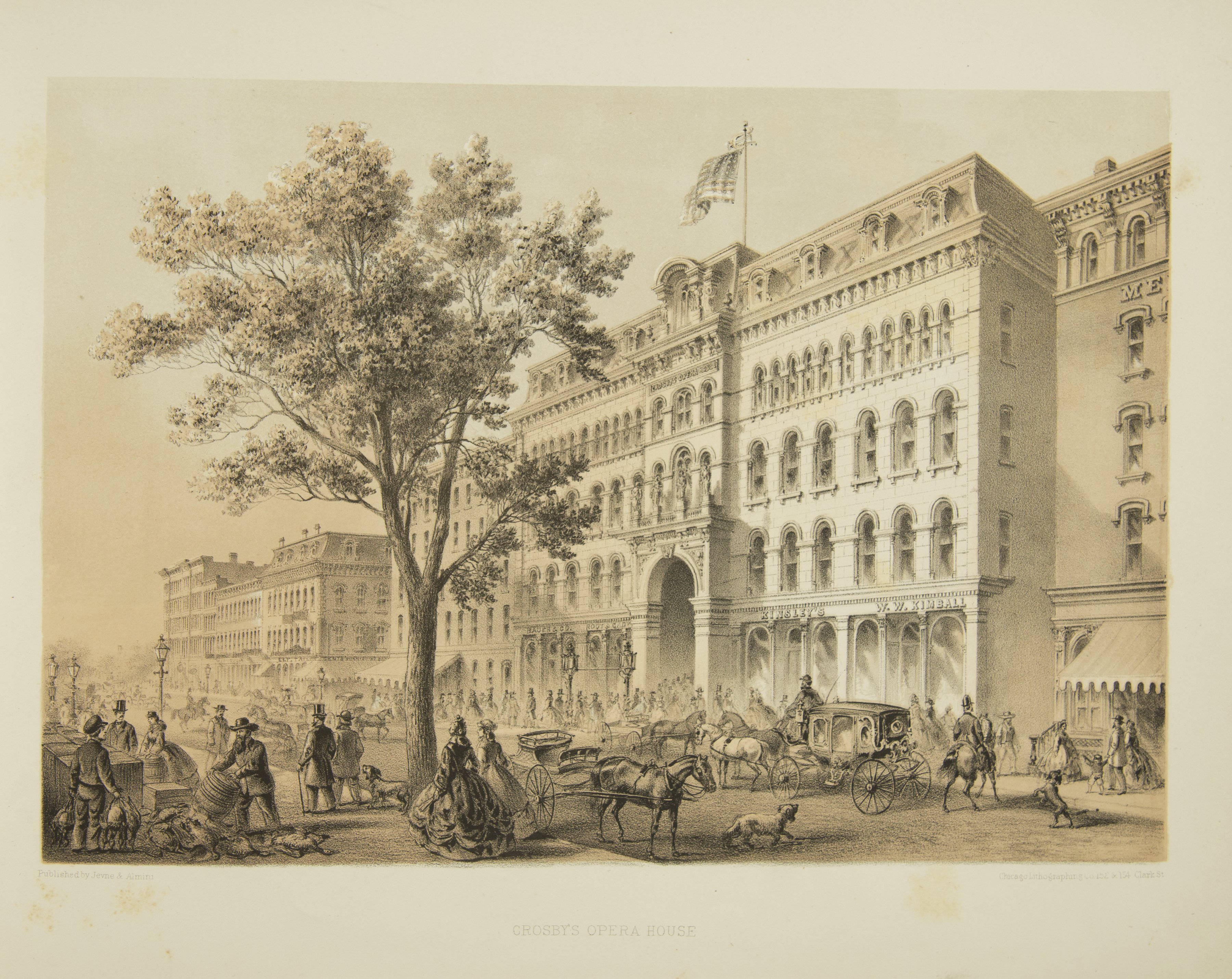 Part 3, March 1866; Washington street, between State and Dearborn streets